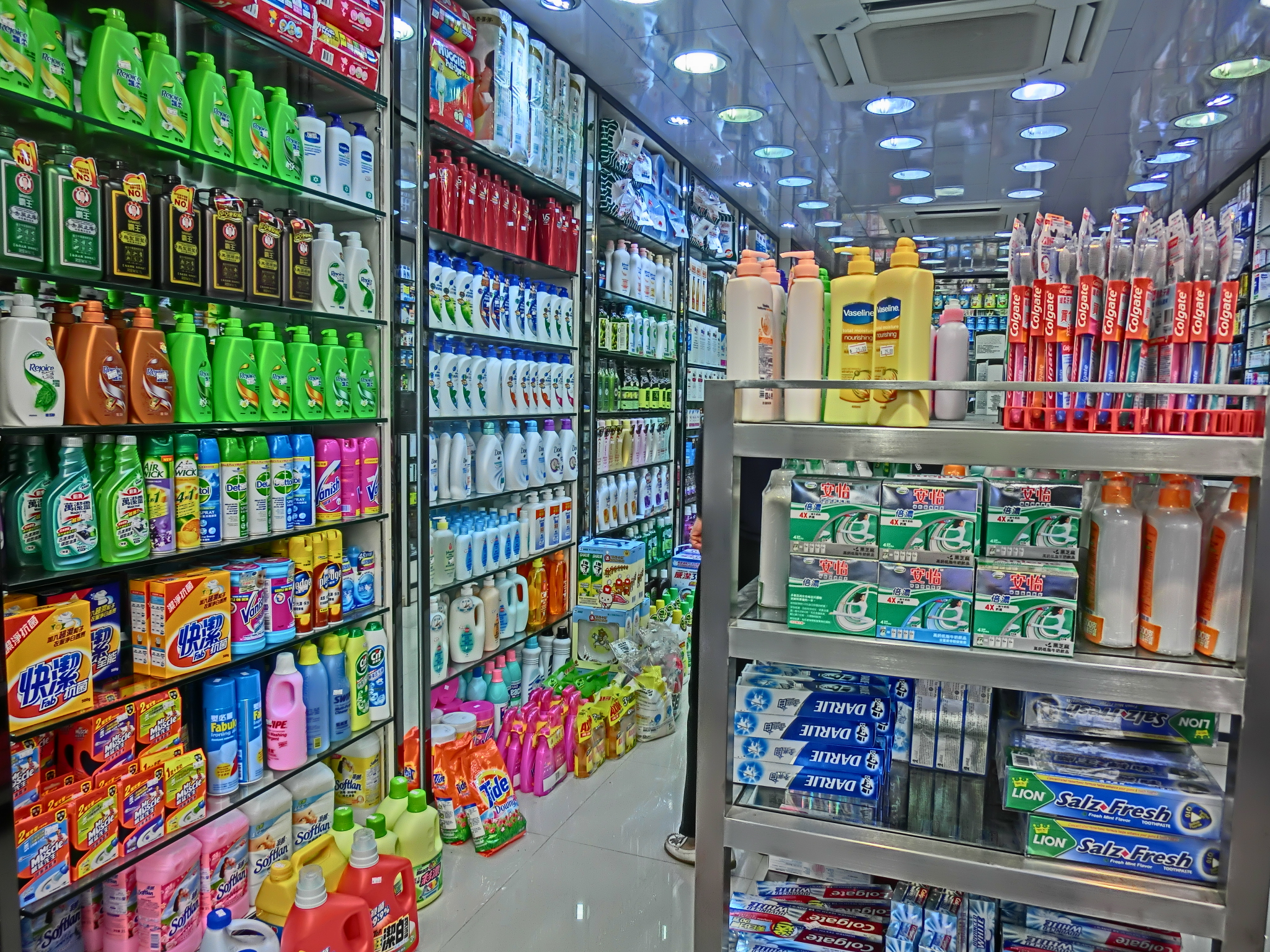 春園街, Spring Garden Lane, Wan Chai, Hong Kong